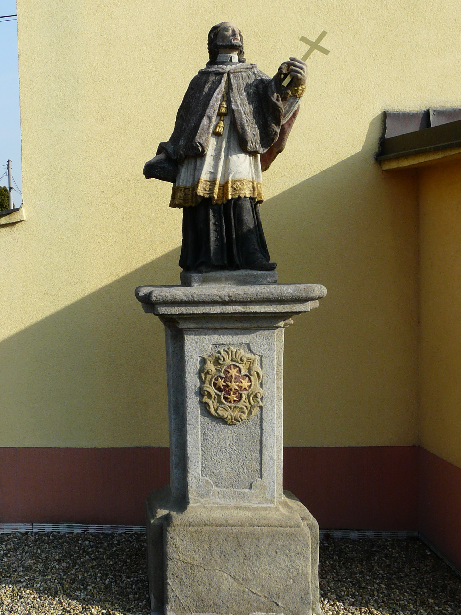 Statute of John of Nepomuk in Věřňovice, Dolní Lutyně, Karviná District, Moravian-Silesian region, Czech Republic